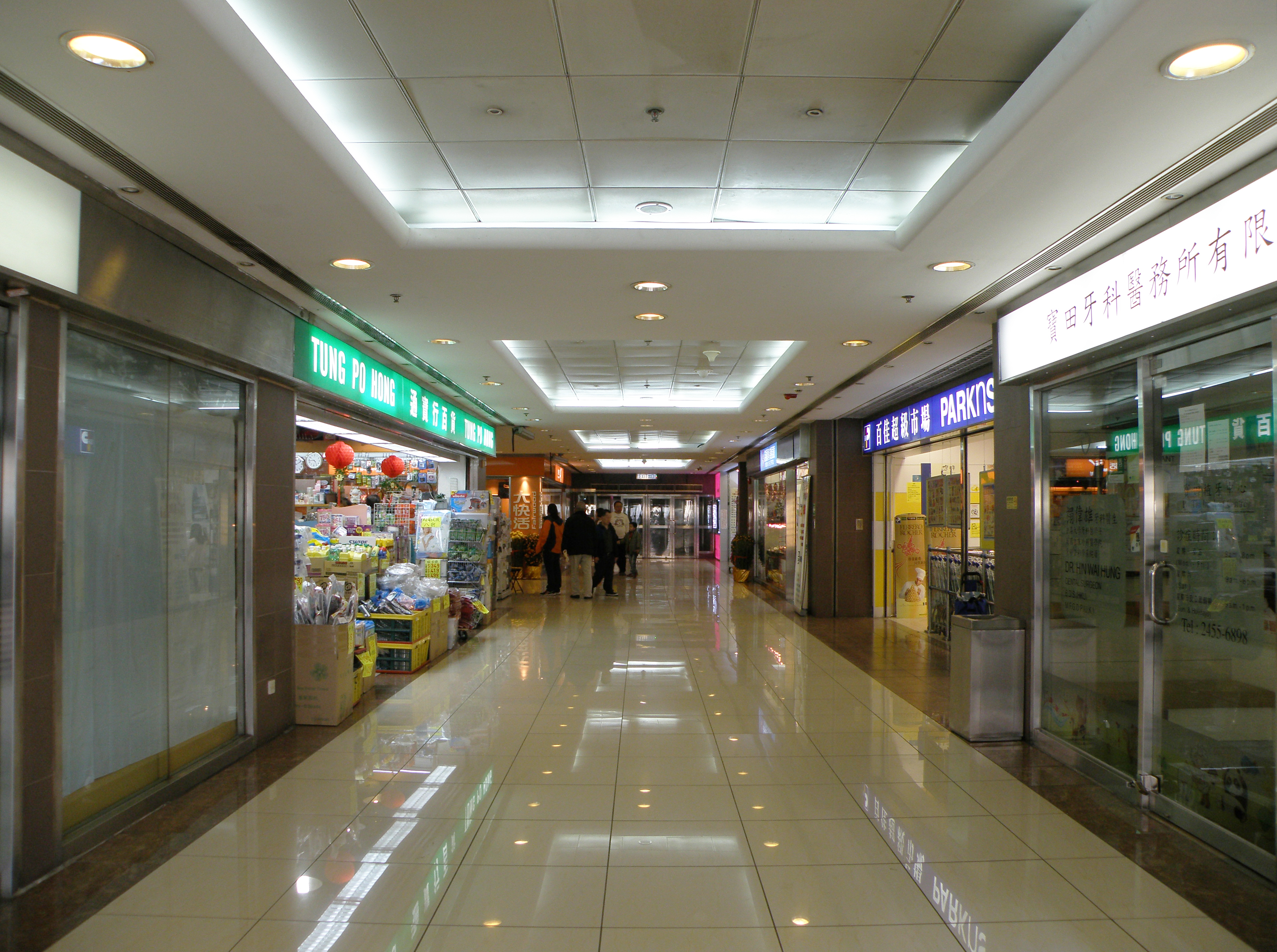 Po Tin Shopping Centre in Tuen Mun, Hong Kong.